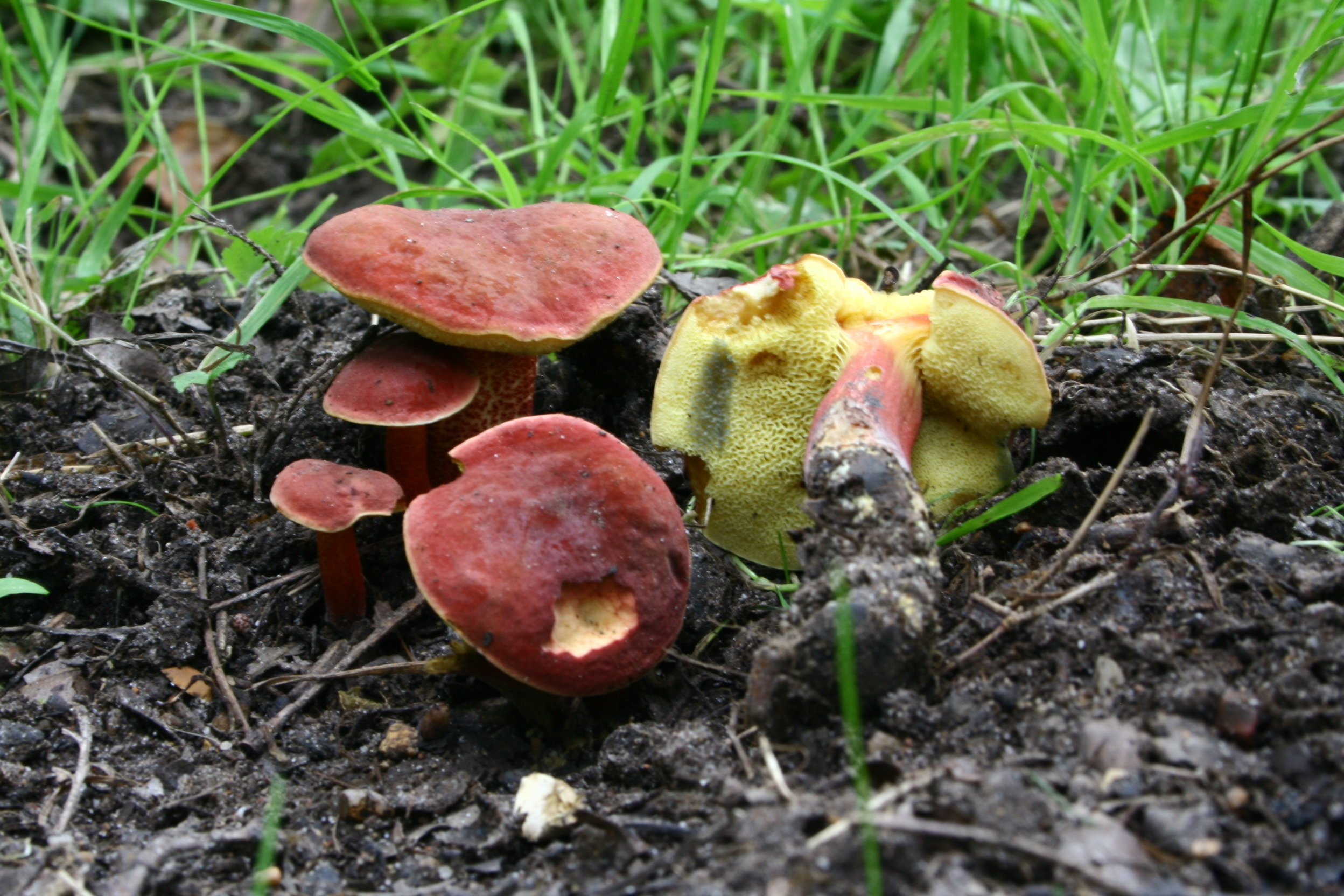 Boletus rubellus by a path in the Forêt de Sénart near Paris, France.